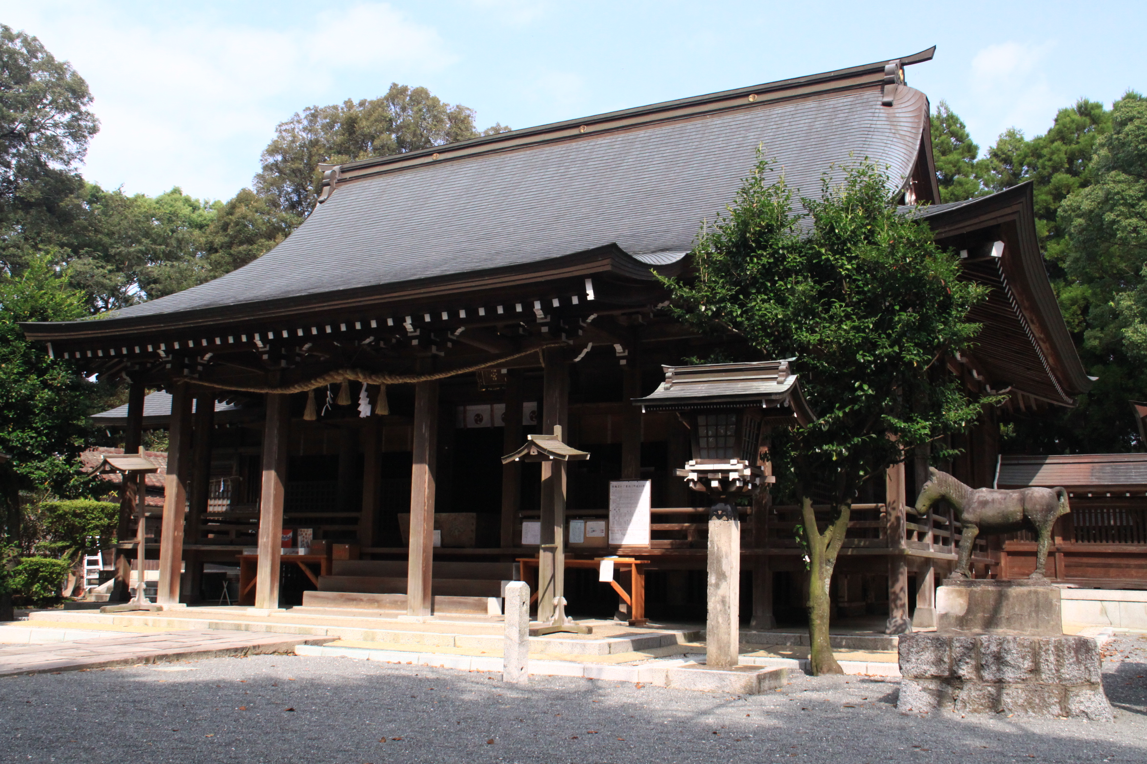 Chirikuhachimangu Haiden